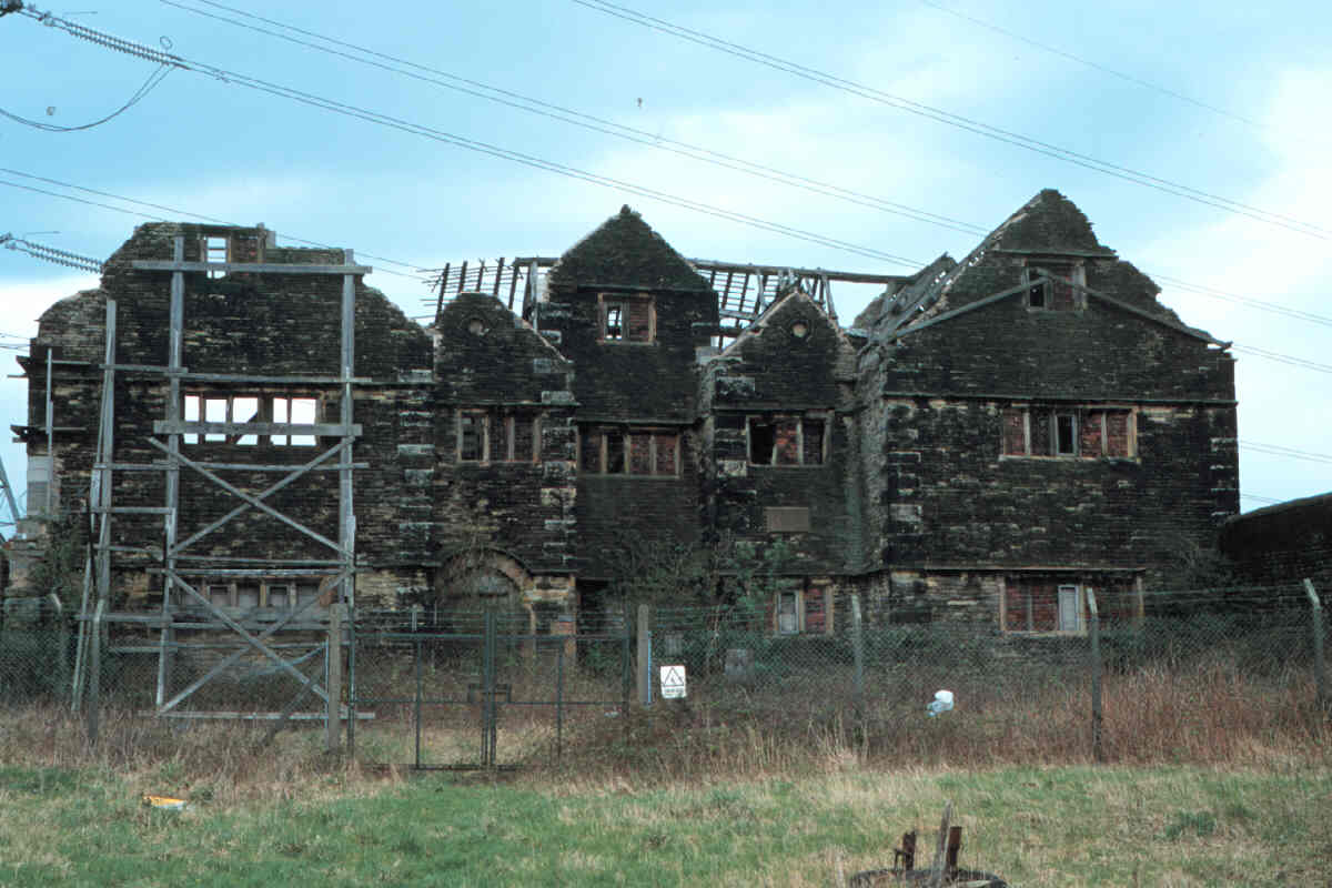 The deteriorating condition of Stayley Hall